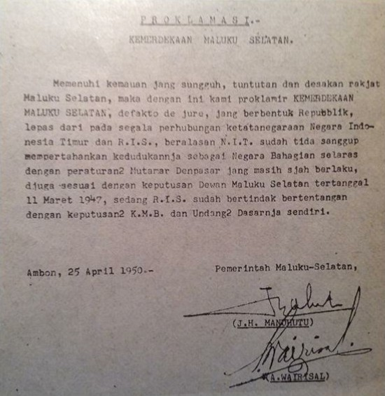 Typewriter from the text of the proclamation of the Republic of South Maluku on April 25, 1950